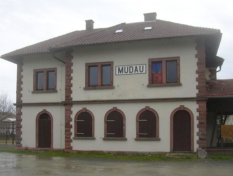 The former station of Mudau on the "Odenwaldexpress" Mosbach–Mudau (narrow-gauge railway track)